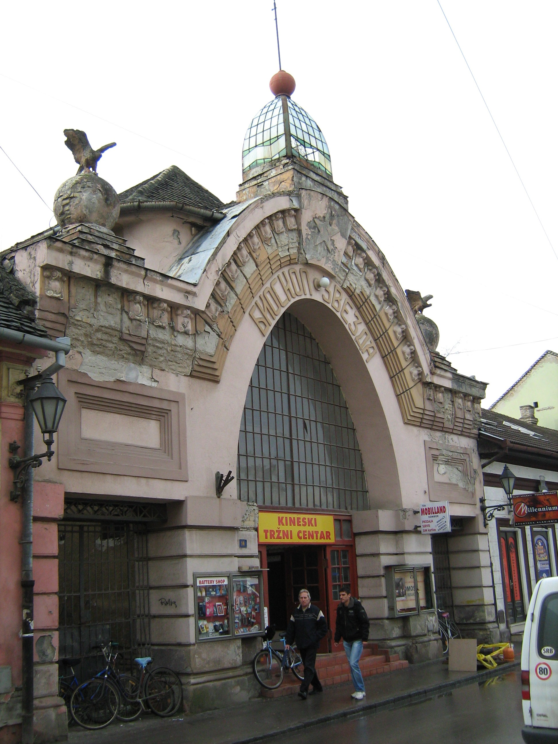 Former "Zvezda" Cinema